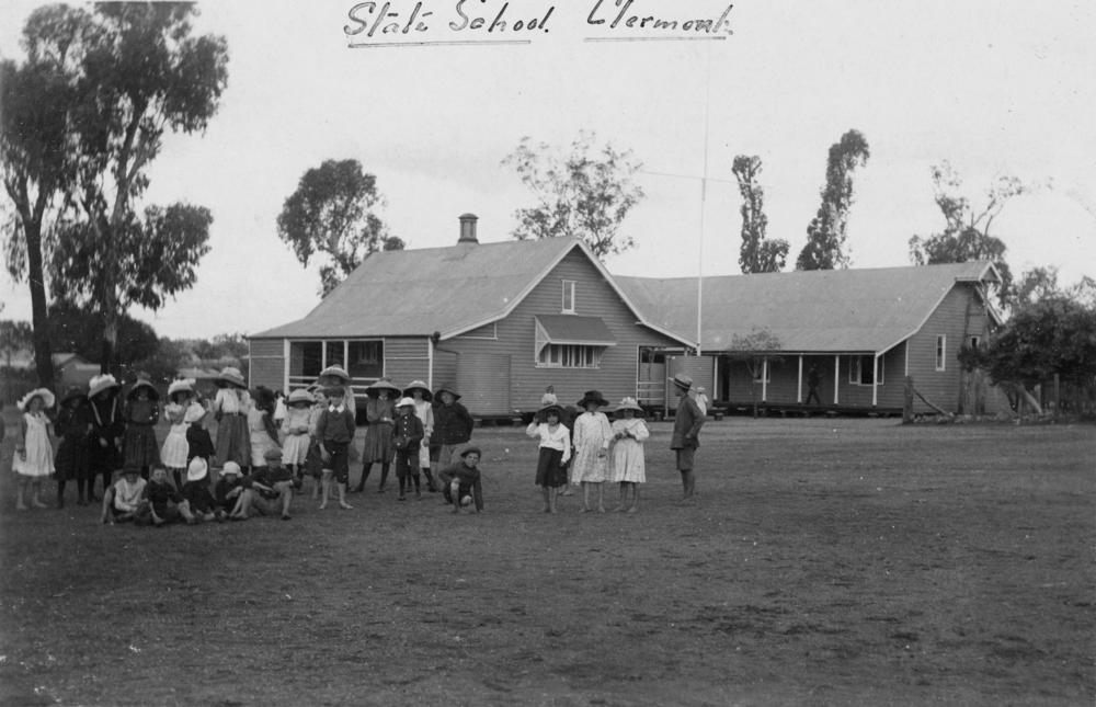 Students at the Clermont State School, Queensland, ca. 1905. Original postcard depicting the Clermont State School buildings with a group of children in the foreground. The buildings are of timber with iron roofs. Two water tanks are visible.